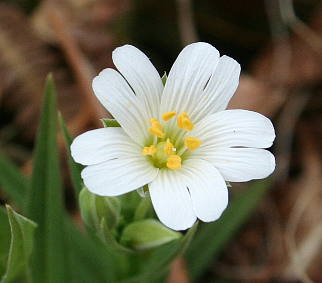 Greater Stitchwort (Stellaria holostea) A solitary flower near the shore of Loch Melfort. It's difficult to tell how big it is; it measures about 20 mm across.